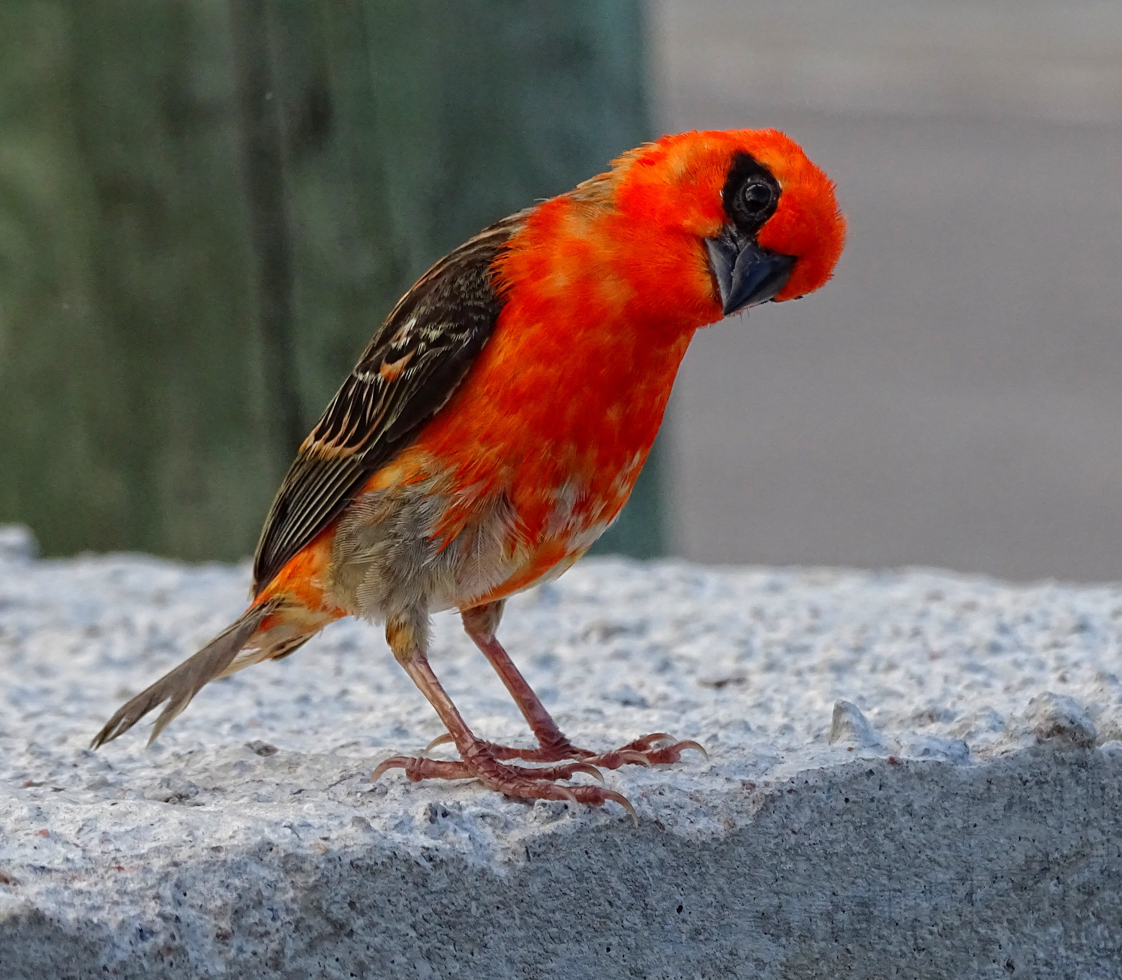 A Red fody (Foudia madagascariensis) on Praslin island in the Seychelles.